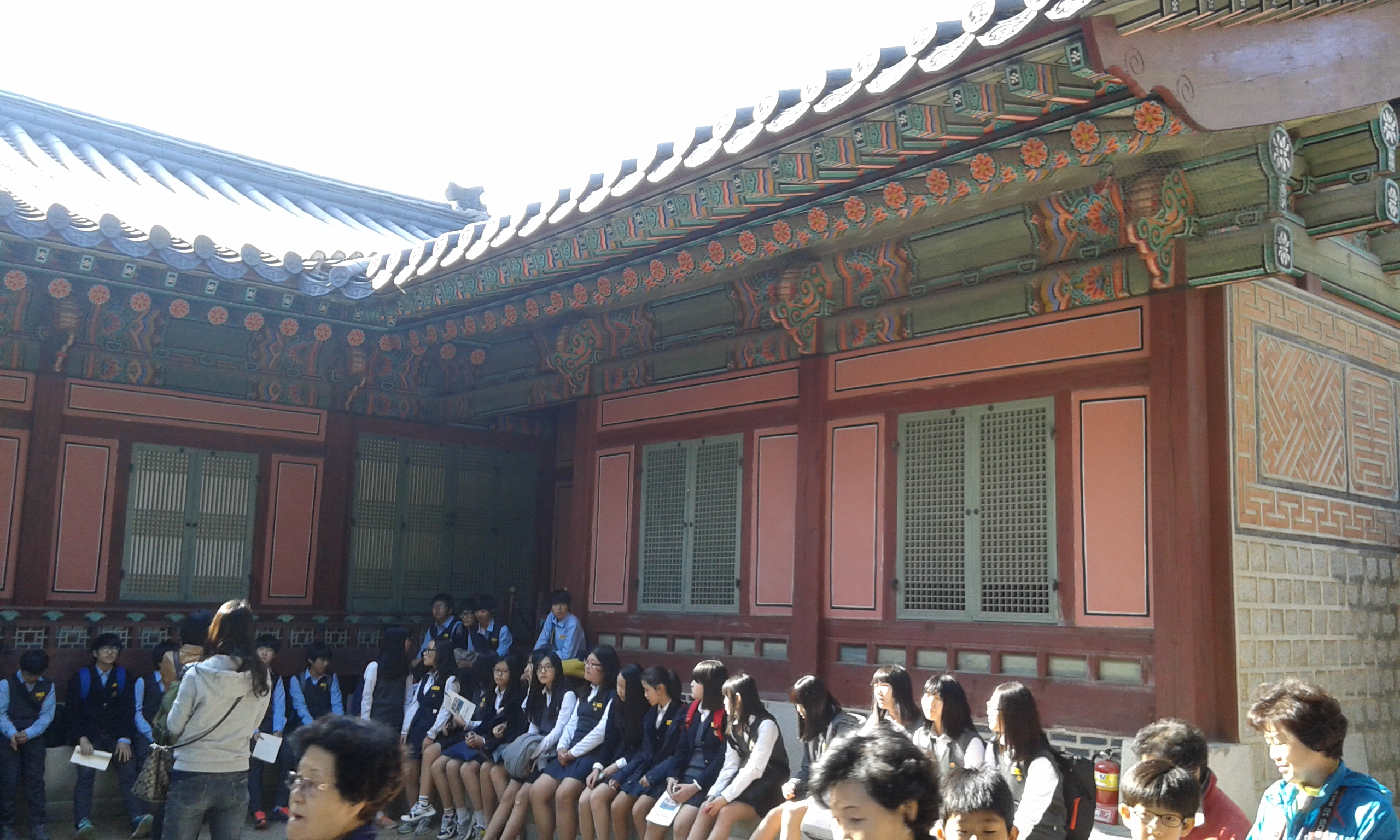 Students in South Korea